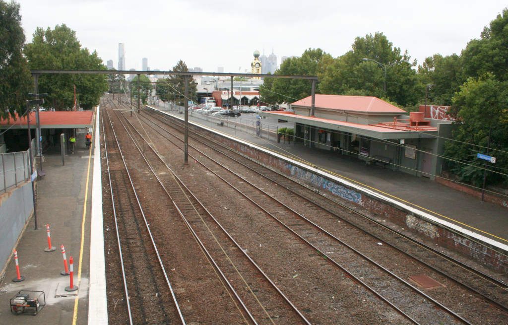 East Richmond railway station, Melbourne